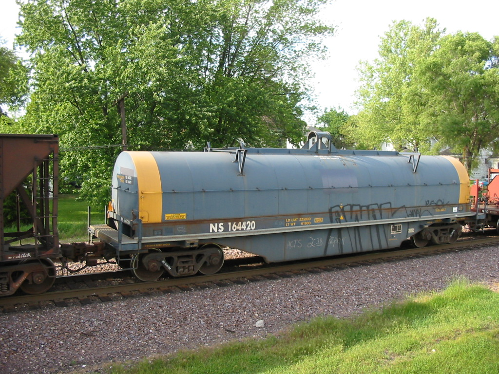 NS 164420, a steel coil car (a specific type of gondola) seen at Rochelle Railroad Park, Rochelle, on May 20, 2005. Photo by Sean Lamb (User:Slambo)